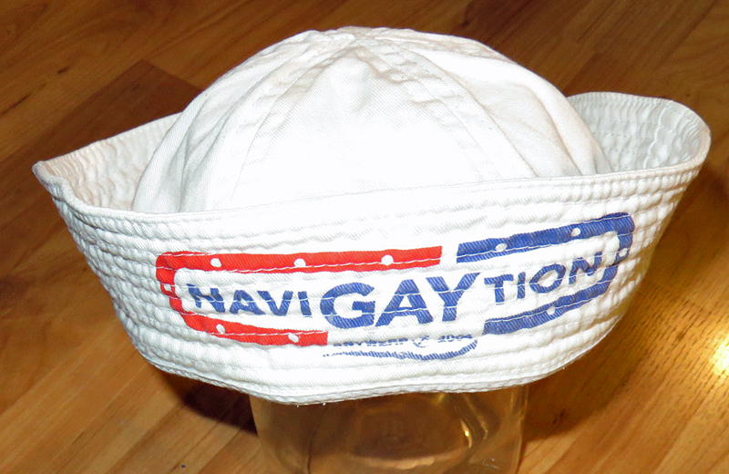 Seaman's hat made for the 2004 edition of the gay party NavyGAYtion, organized by Red & Blue in Antwerp, Belgium.